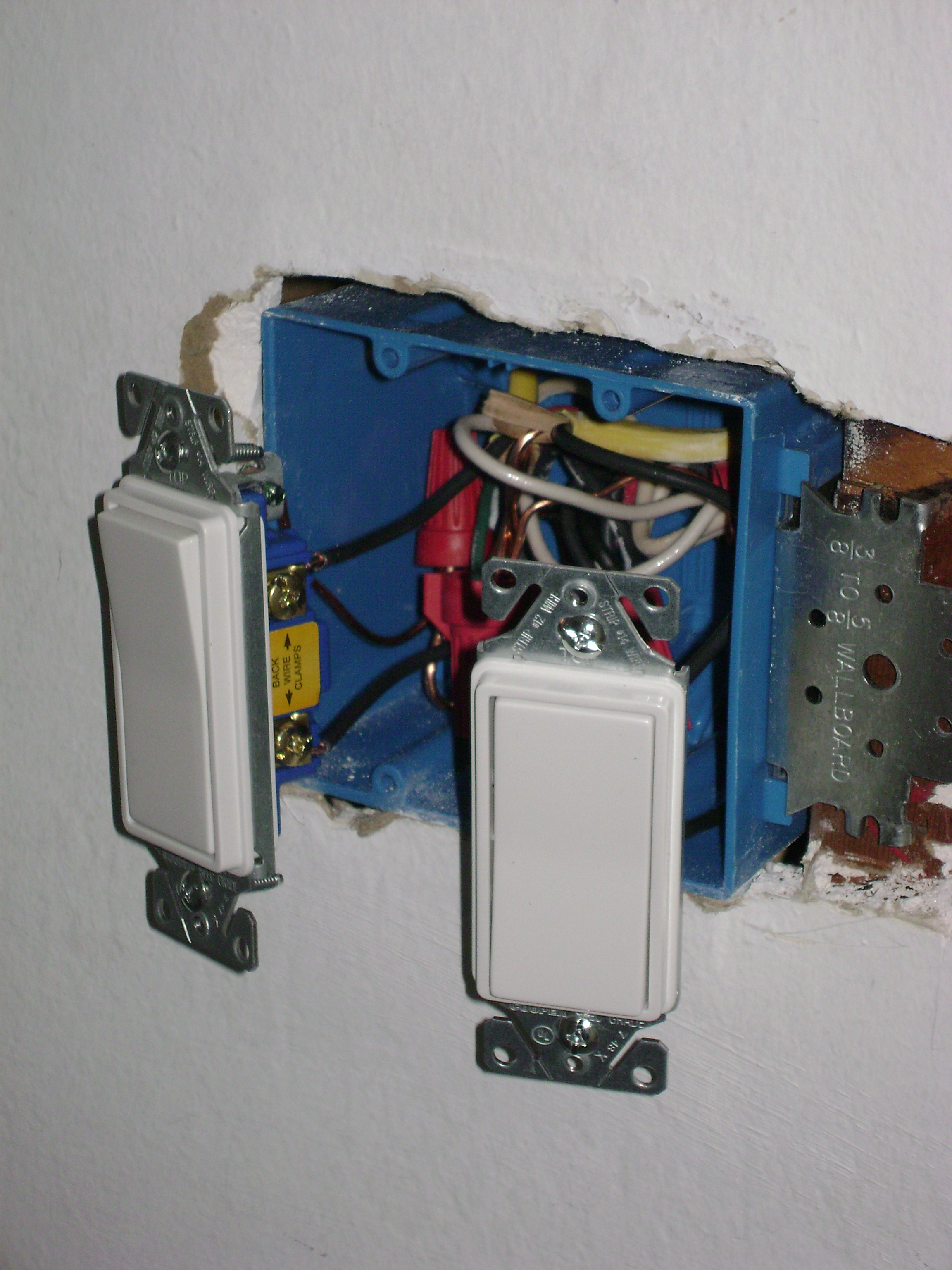 A dis-assembled electrical outlet